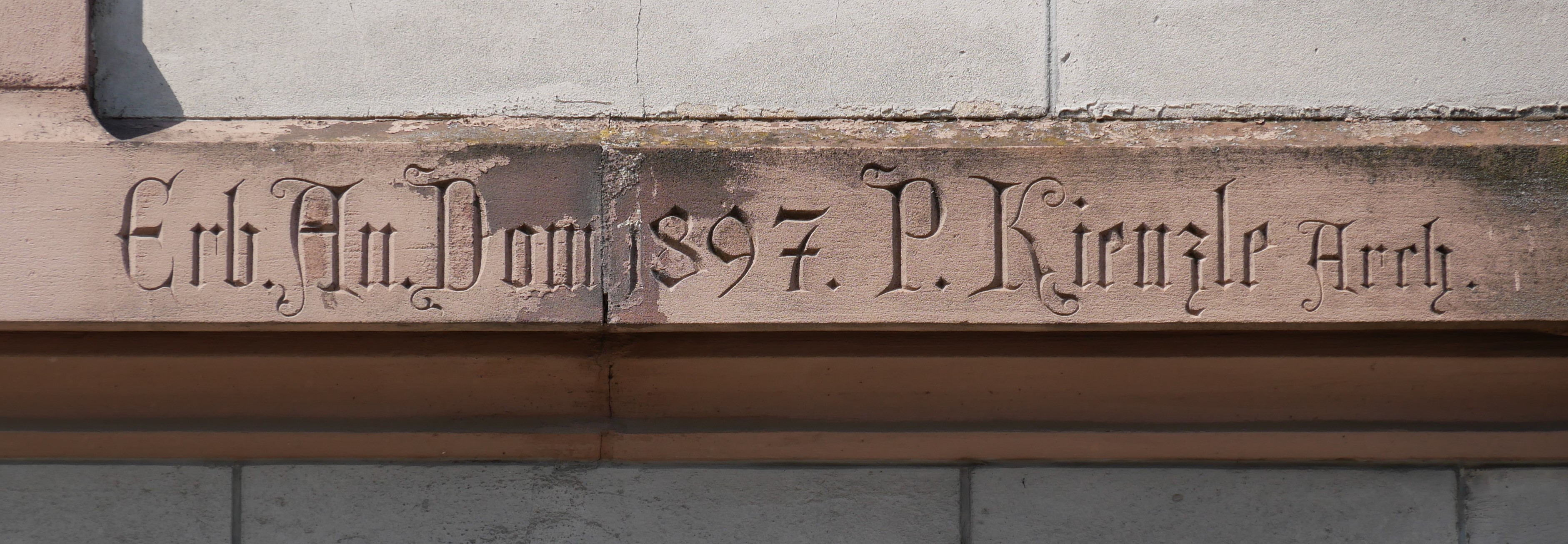 Inscription in face of building Keplerstr. 29 in Ulm, Germany. Translation: "Built anno Domini 1897. P.Kienzle Architect"